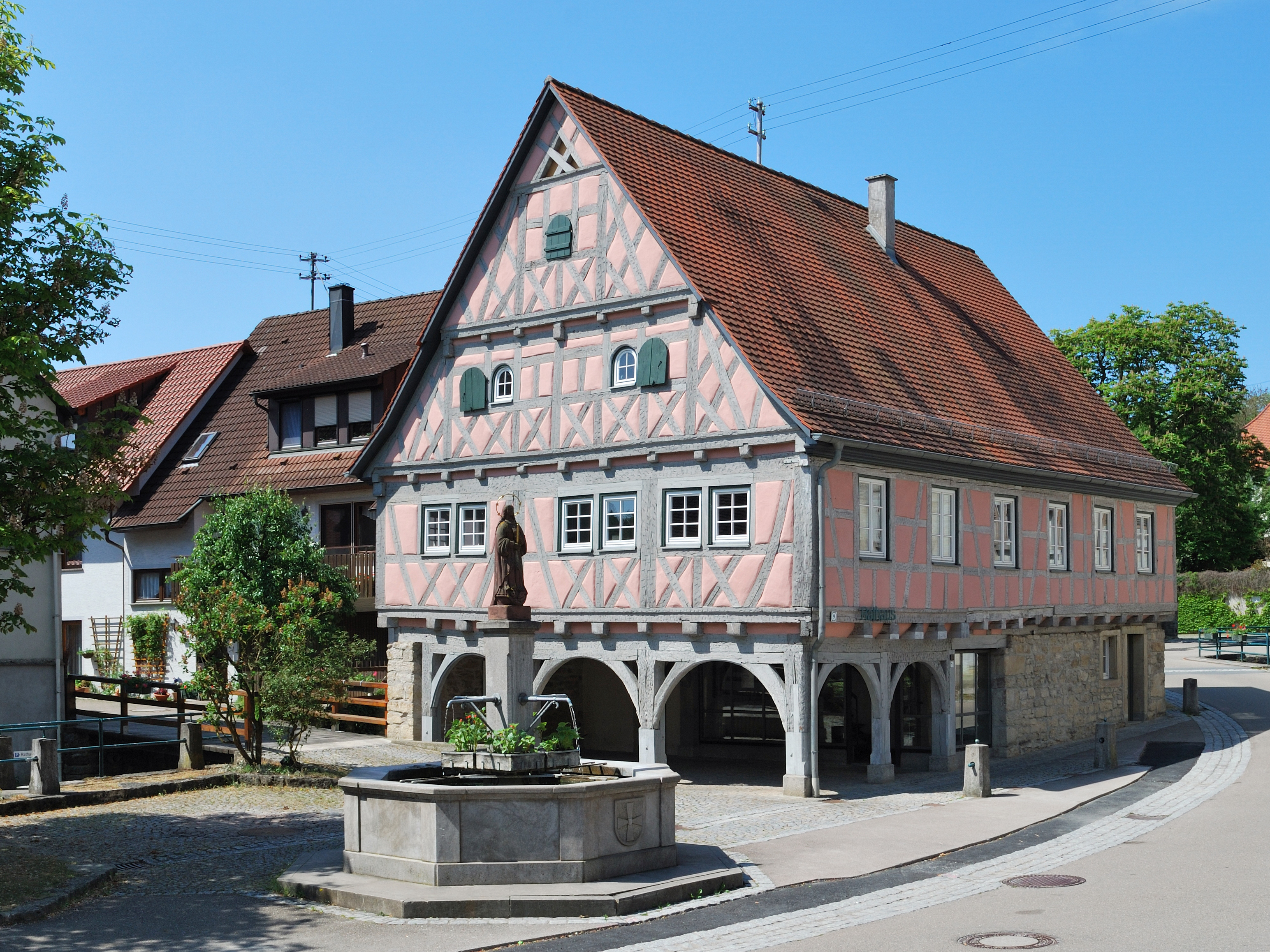 The city hall in Ailingen in Southern Germany.